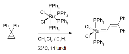 Grubbsi metateesi